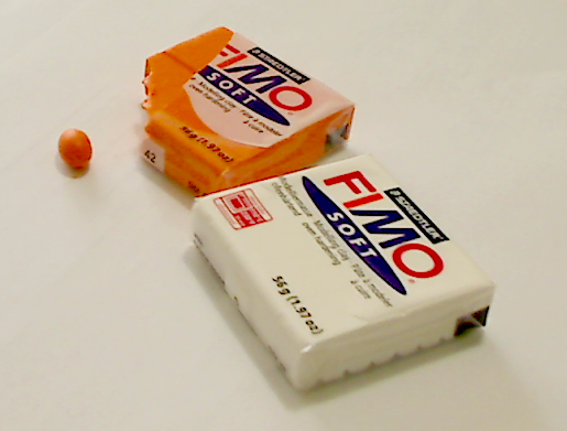 Two fimo modeling clay blocks (white and orange)